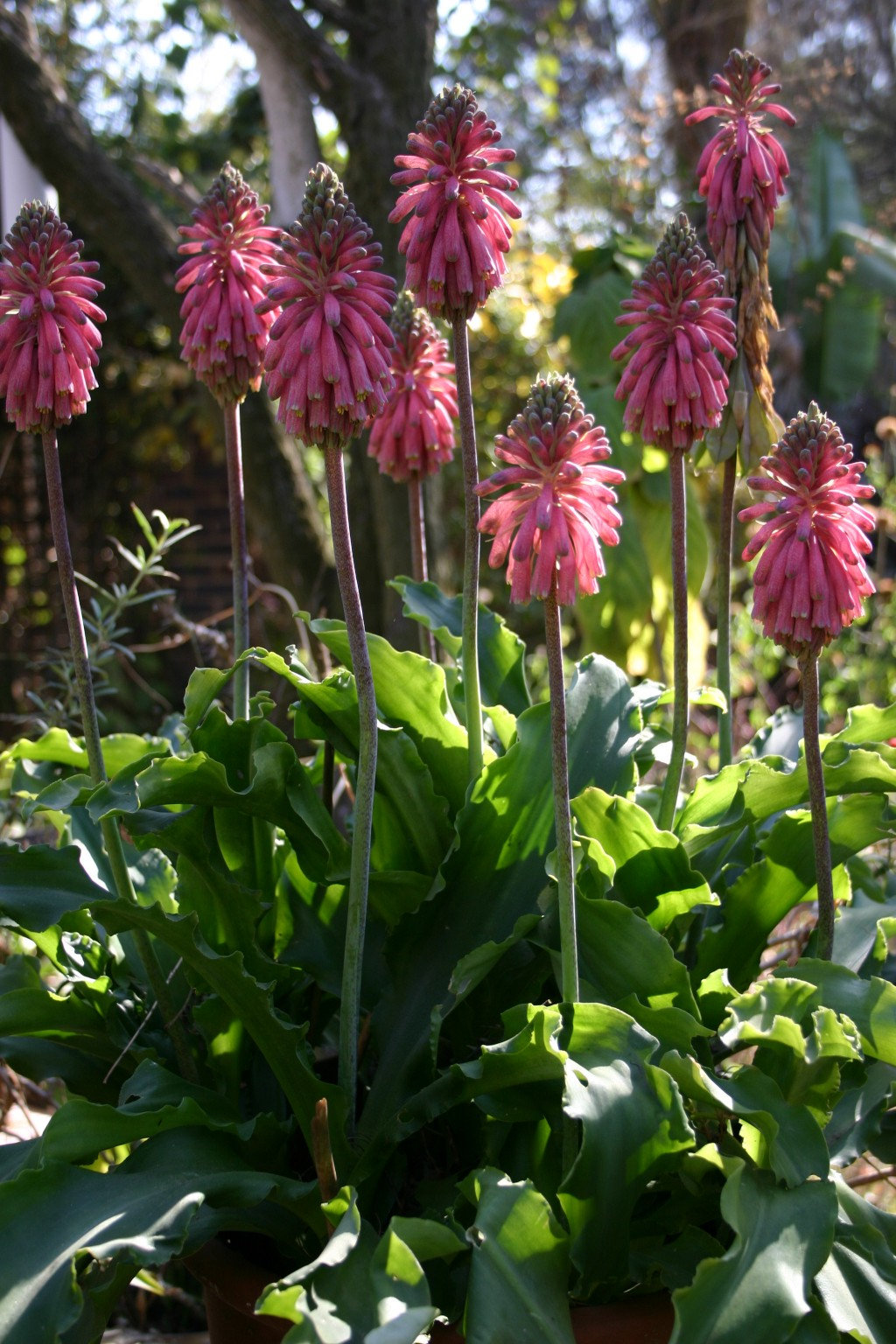 Veltheimia bracteata Harv. ex Bak., cultivated in Johannesburg, South Africa